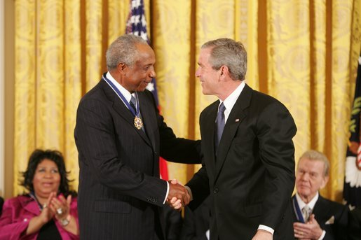 President George W. Bush presents the Presidential Medal of Freedom to baseball legend Frank Robinson in the East Room Wednesday, Nov. 9, 2005. Winning the Most Valuable Player awards in the National and American Leagues, he achieved the American League Triple Crown in 1966. Mr. Robinson became baseball's first African-American manager. The citation read: Frank Robinson played the game of baseball with total integrity and steadfast determination. He won Most Valuable Player awards in both the National and American Leagues. He achieved the American League Triple Crown in 1966. His teams won five League titles and two World Series championships. In 1975, Frank Robinson broke the color barrier as baseball's first African-American manager, and he later won Manager of the Year awards in both the National and American Leagues. The United States honors Frank Robinson for his extraordinary achievements as a baseball player and manager and for setting a lasting example of character in athletics.[1]